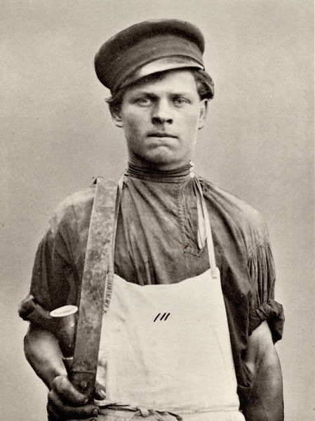 Russian born in Galich uezd, Kostroma guberniya. From the N. Zograf Collection (1877-1878)